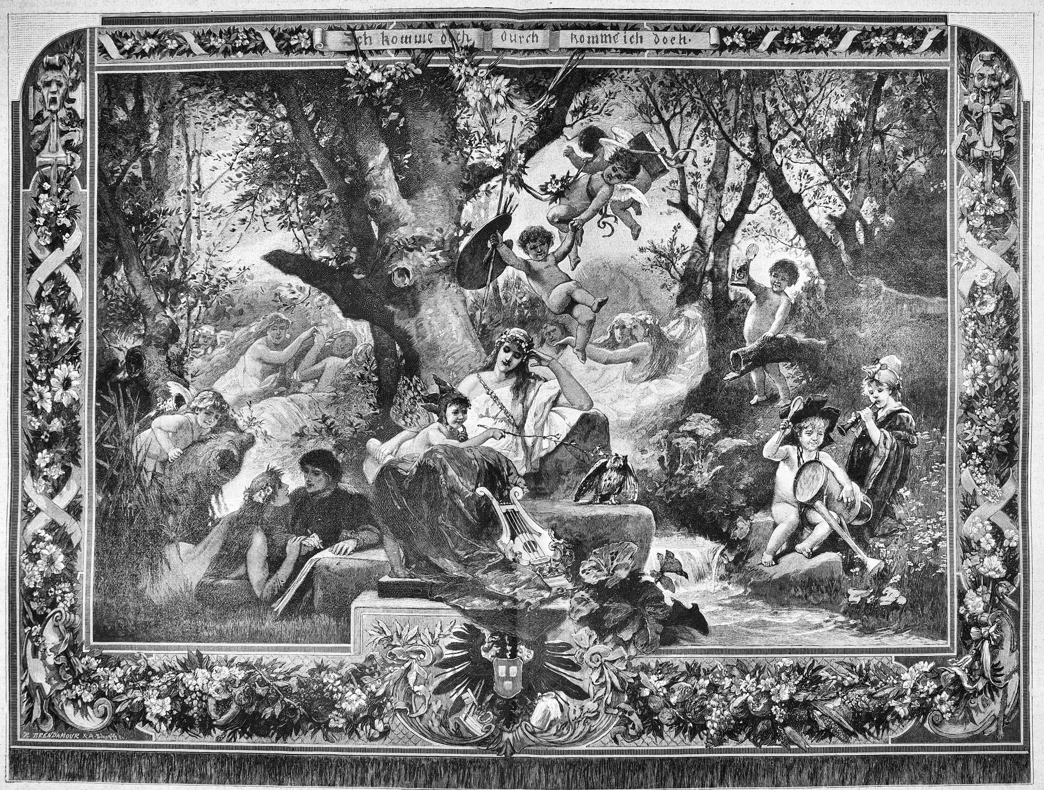 caption: "Der neue Bühnenvorhang im „Malkasten“ zu Düsseldorf.Von Karl Gehrts."